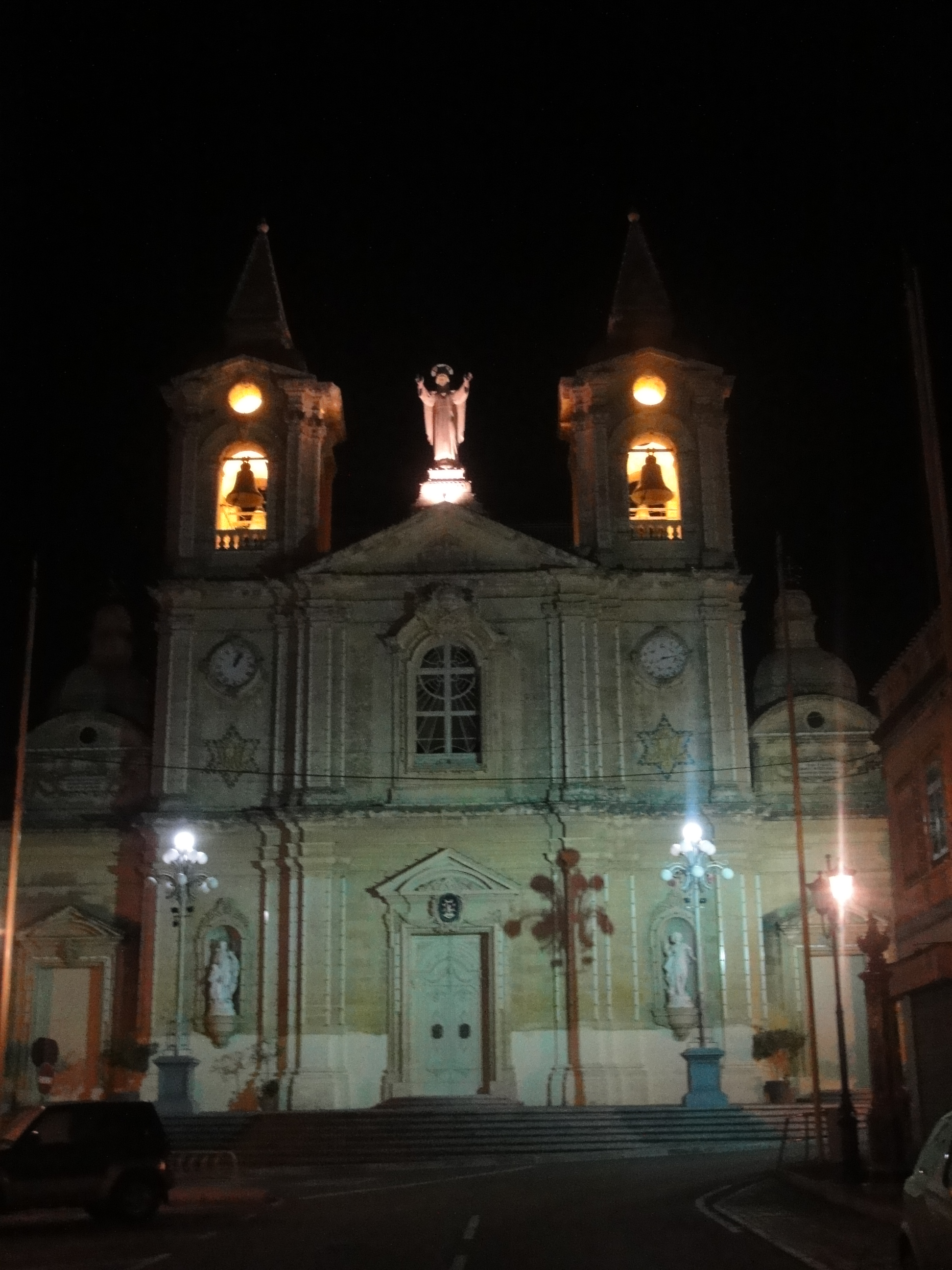 The parish church of St Catherine Zurrieq.